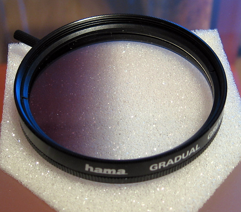 Hama gradual grey photo filter.